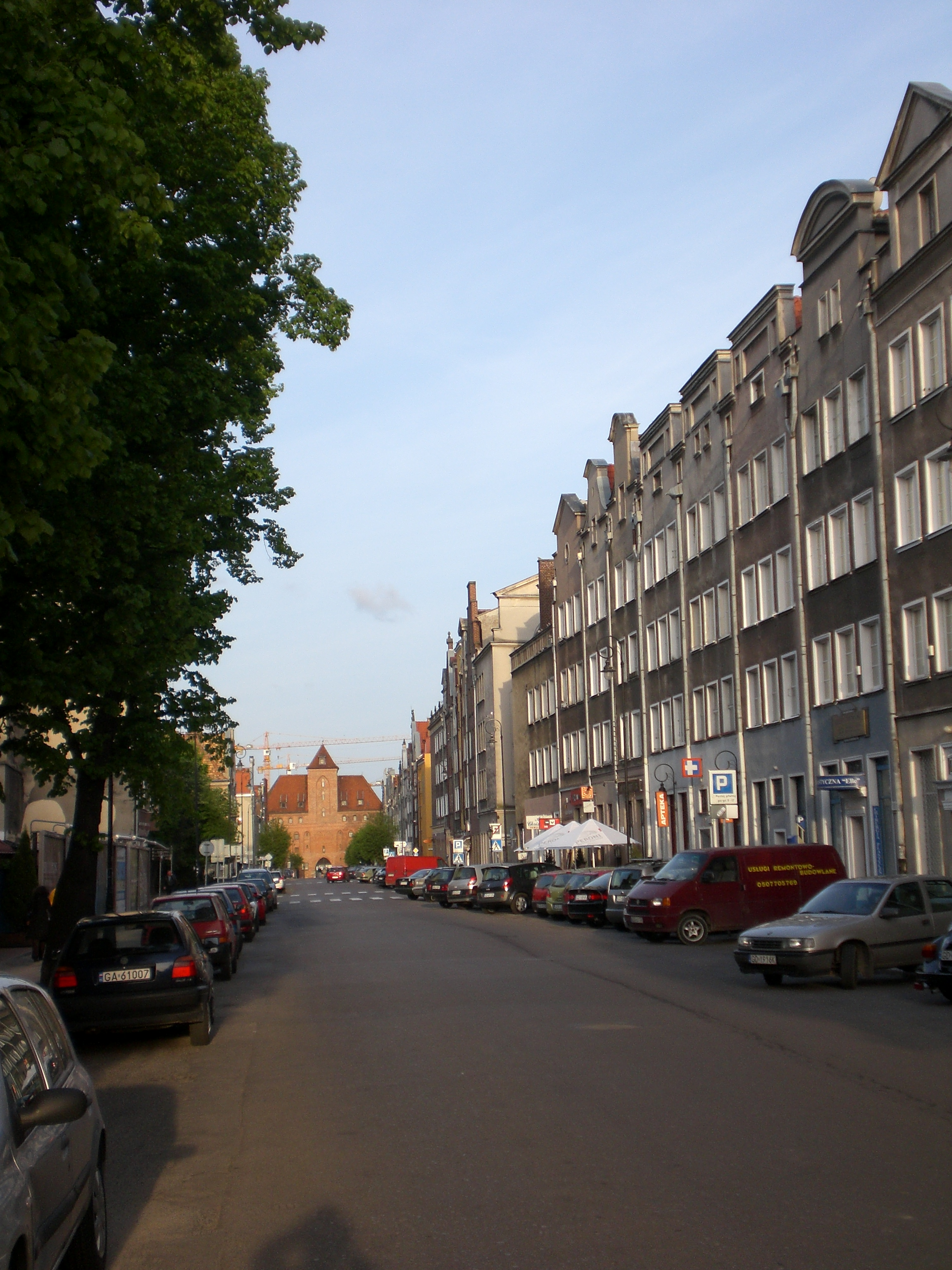 Szeroka Street in Gdańsk.